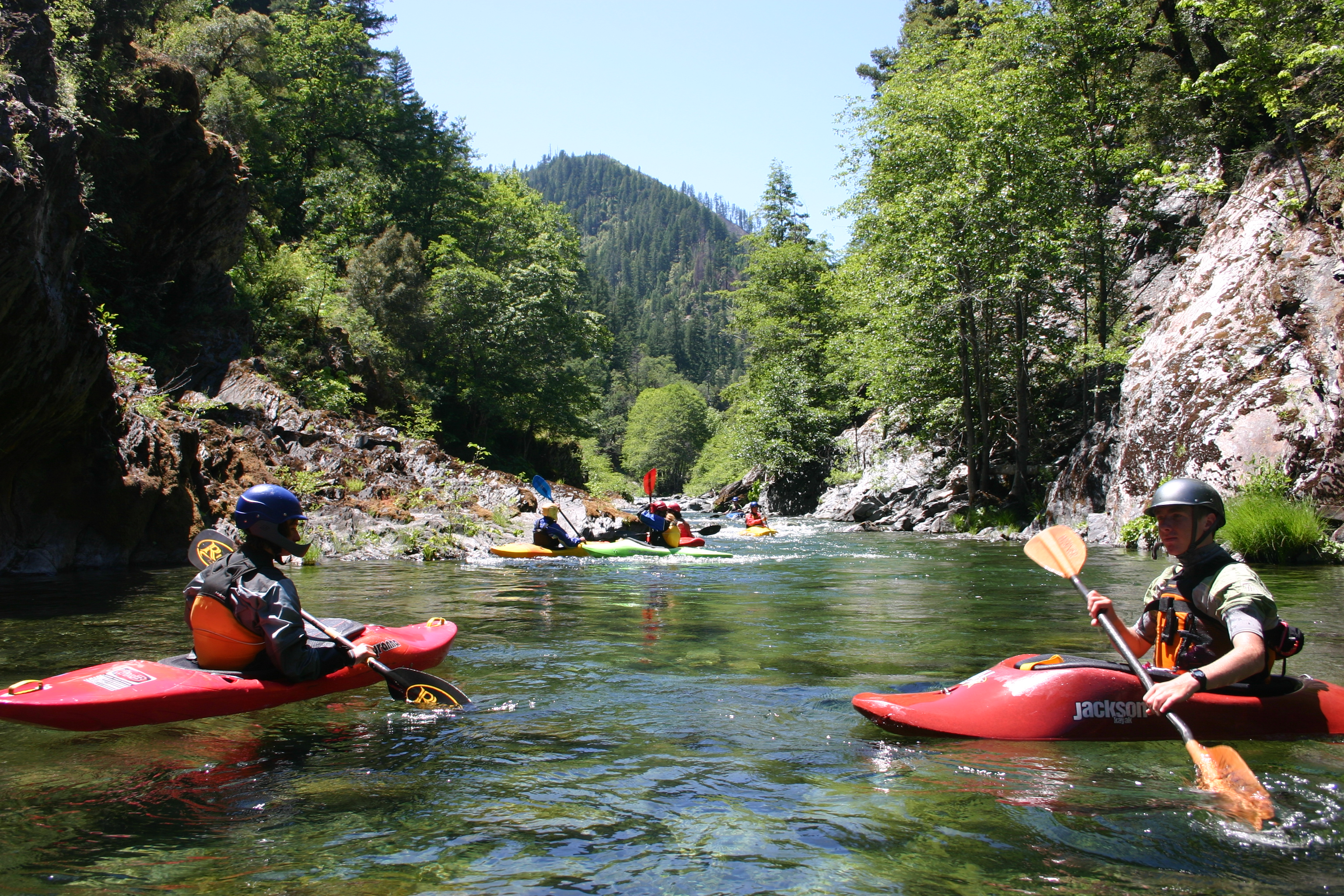 The Alzar School uses outdoor adventure to teach students leadership skills.